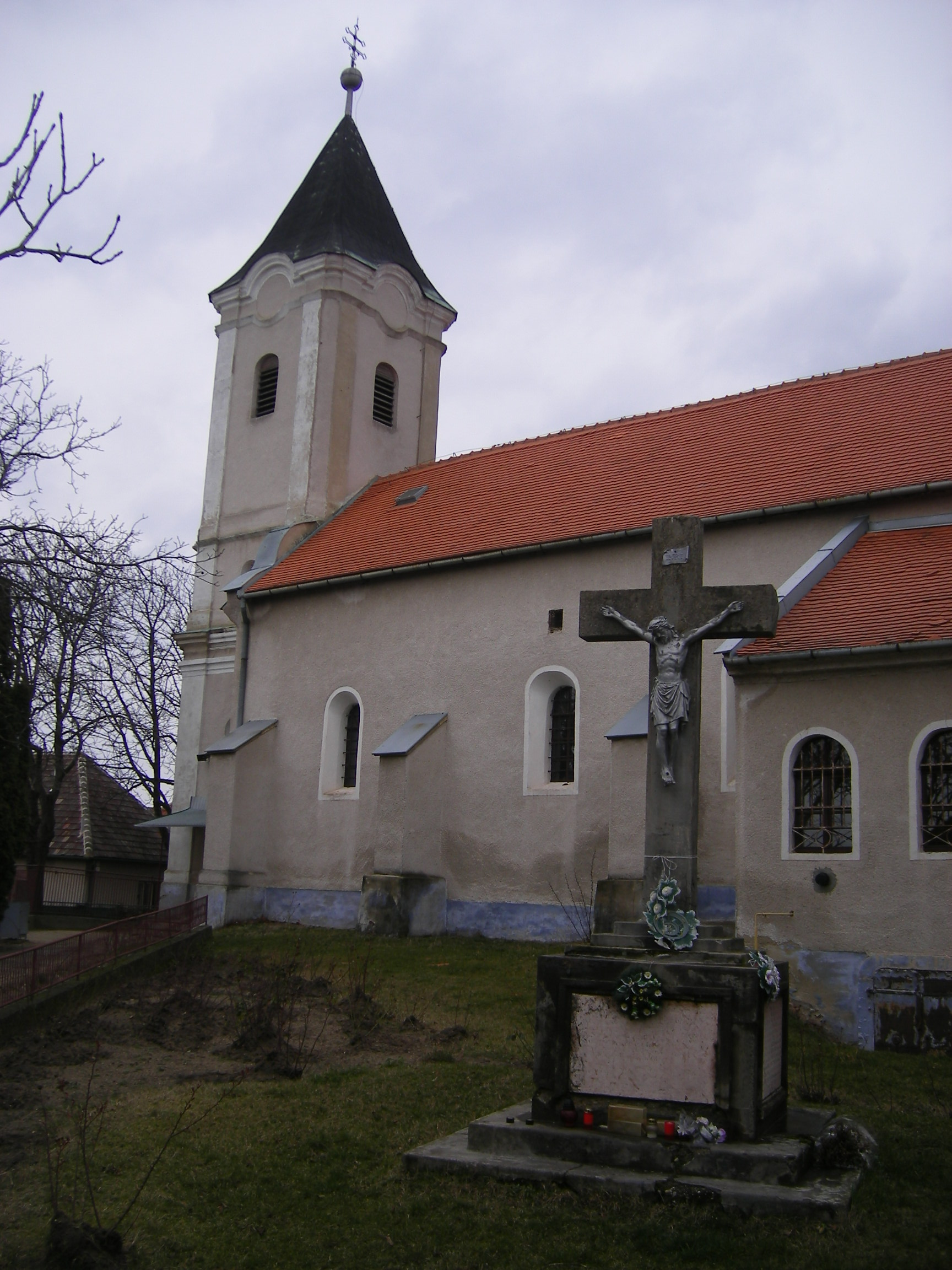 Marcelová, catholic church